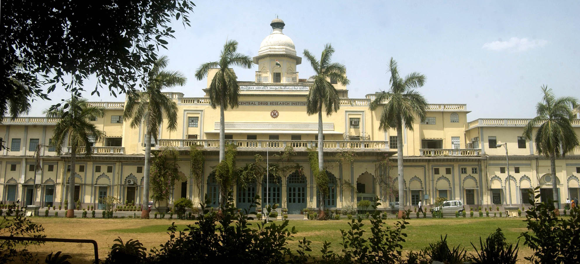 leklfjs